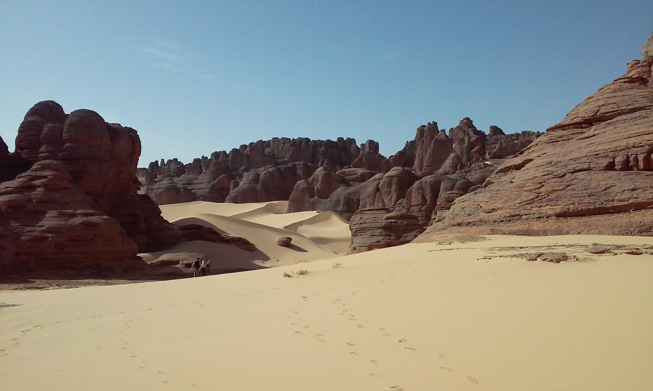 Tamanrasset desert